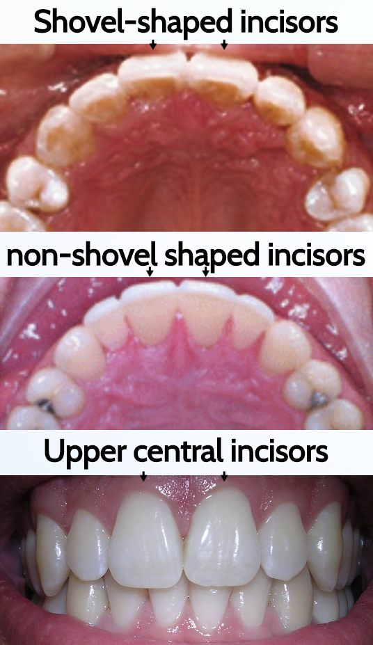 Los dientes incisivos en forma de pala se encuentran principalmente en amerindios y asiáticos.